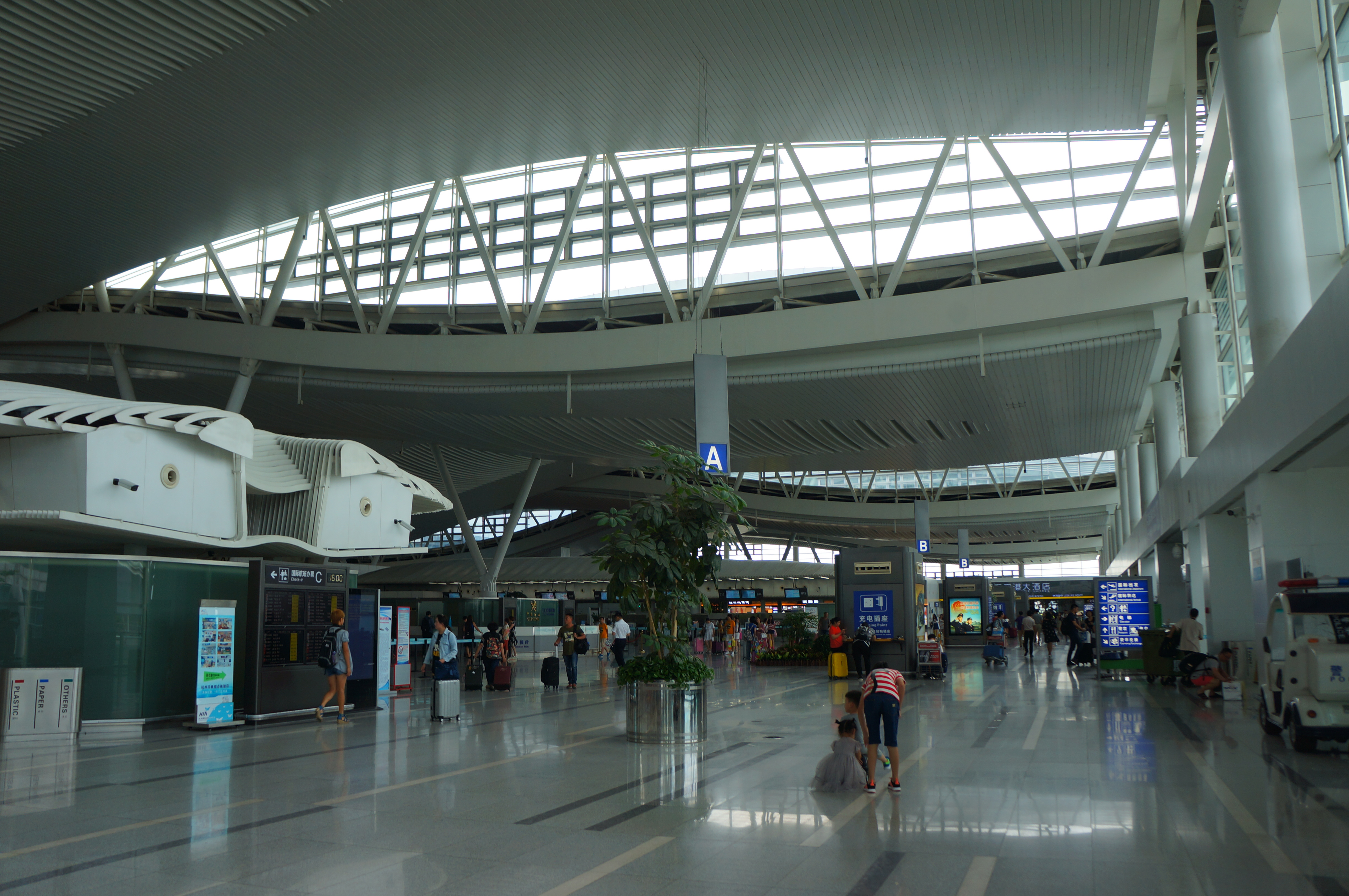 201607 Interior of HGH T2